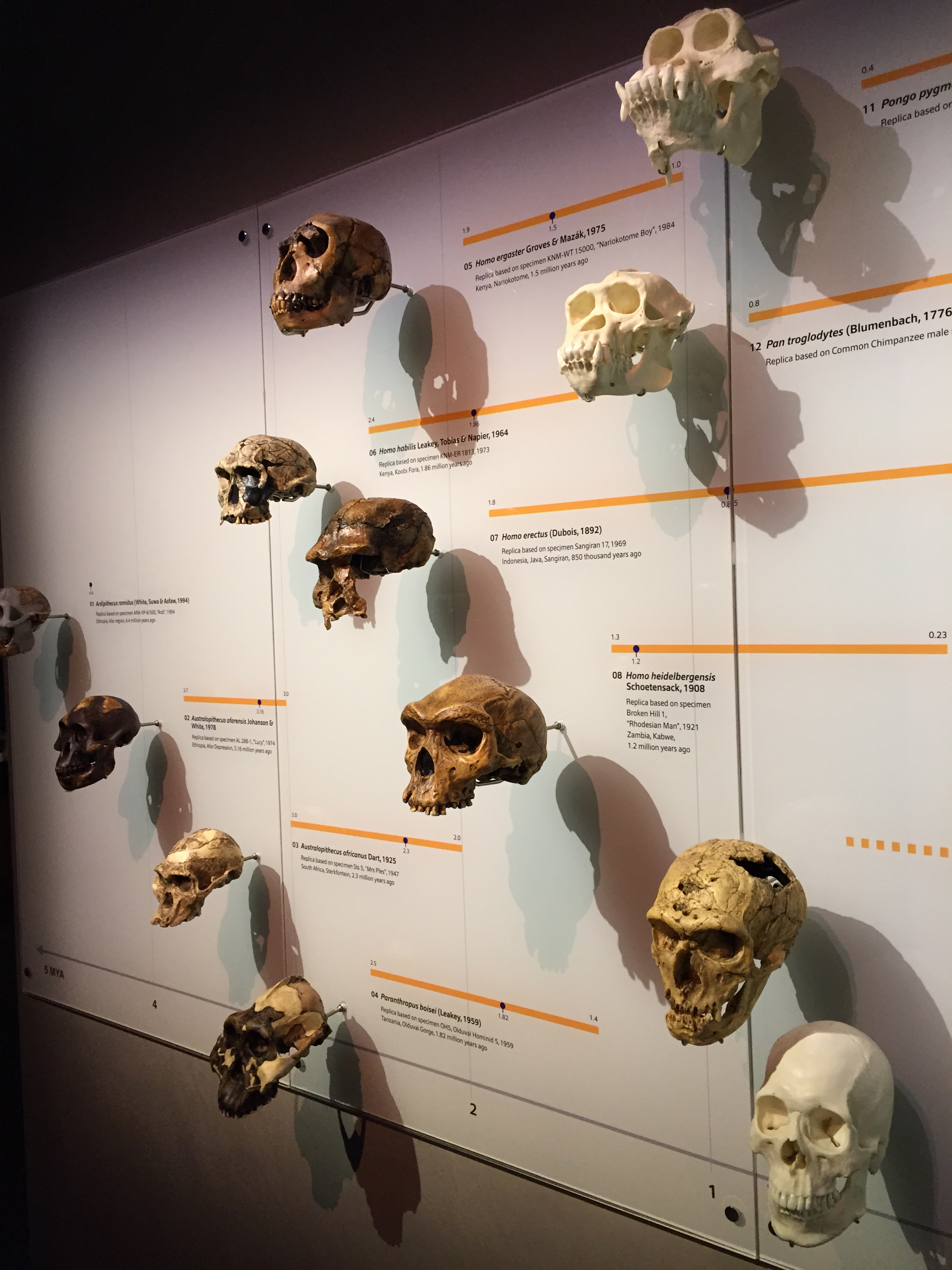 A display of hominid skulls at the Lee Kong Chian Natural History Museum, National University of Singapore.